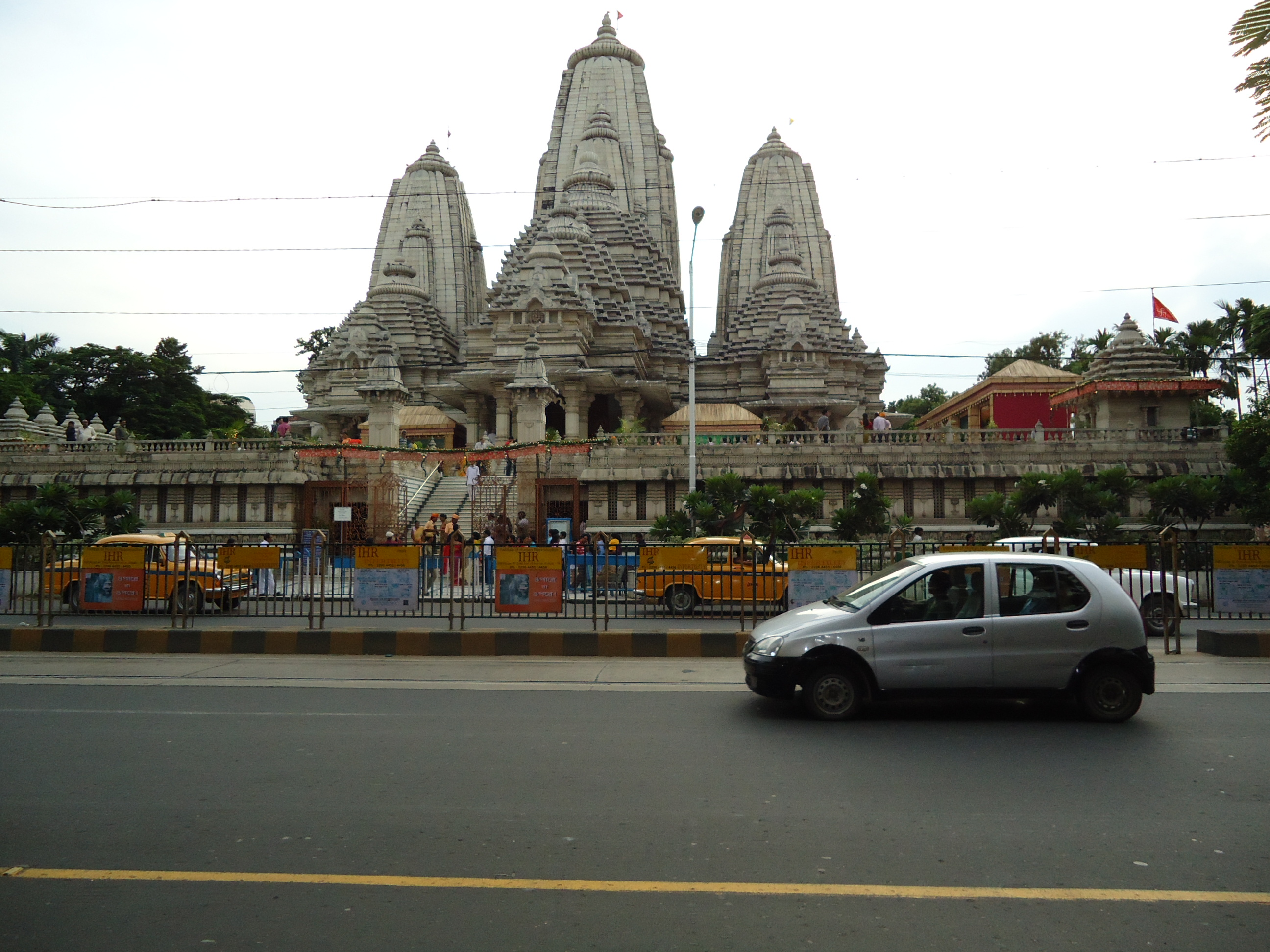 Birla Mandir